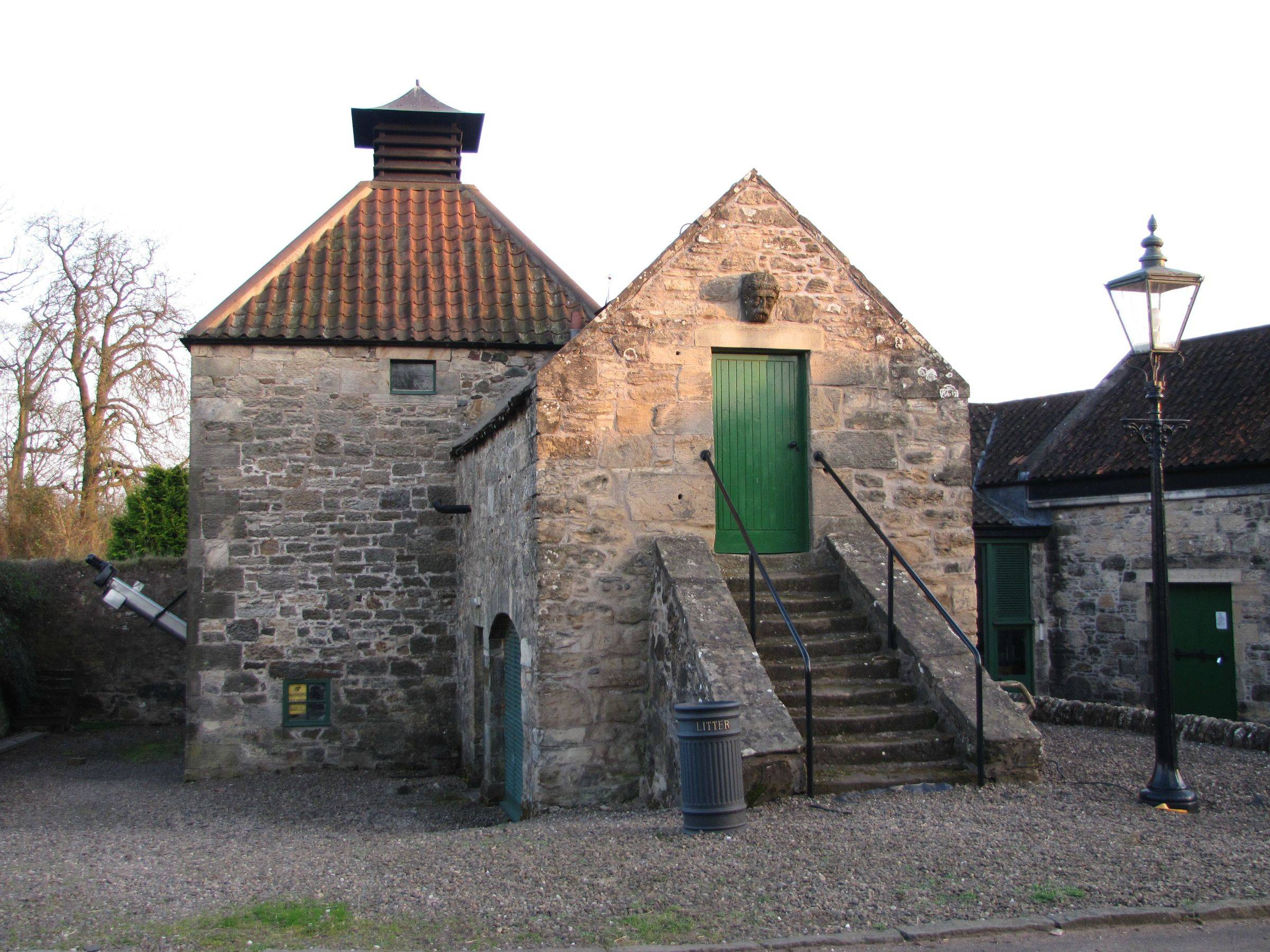 Daftmill distillery in Cupar, Fife, Scotland.